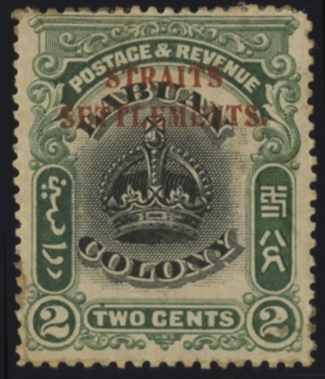 Stamp of Labuan overprinted 'Straits Settlements.', 1906, 2 cents.